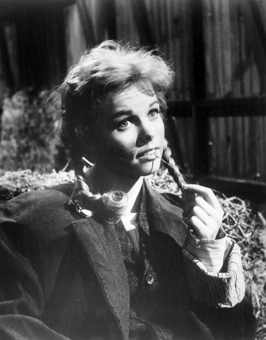 Photo of Cynthia Pepper from the television program Margie.